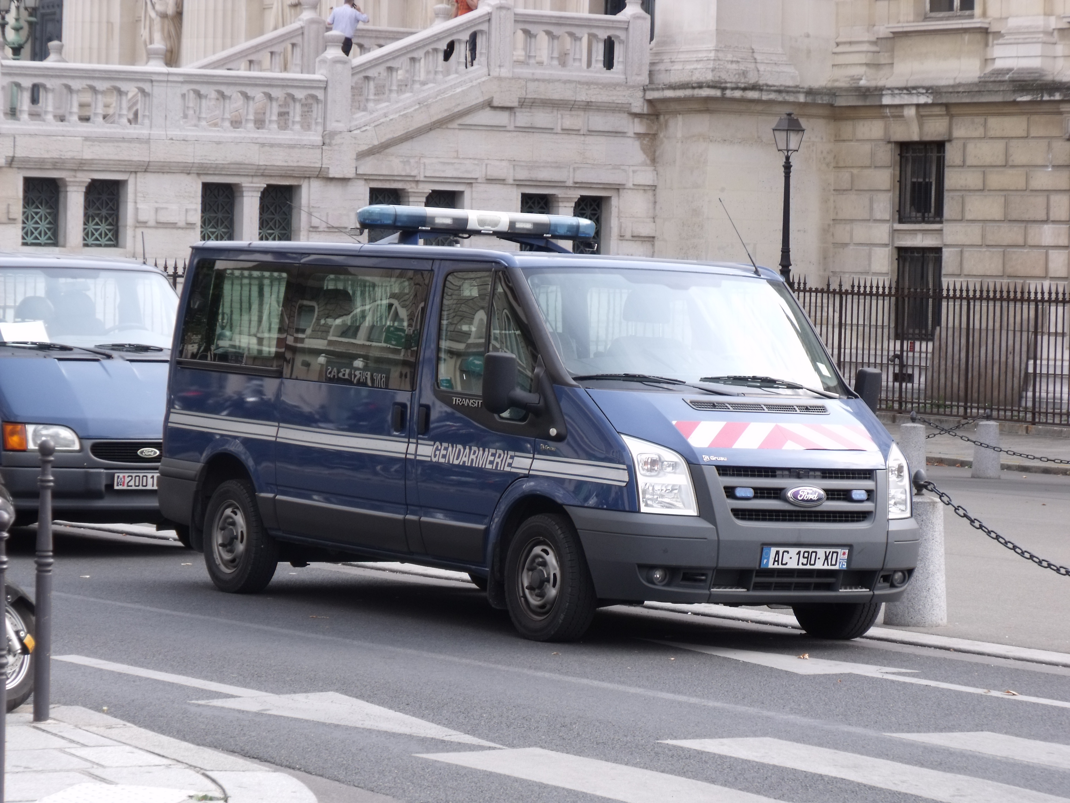 French Gendarmerie Nationale Ford Transit van, seen here in august 2012 front of the Paris courthouse of justice on the Island of Cité.